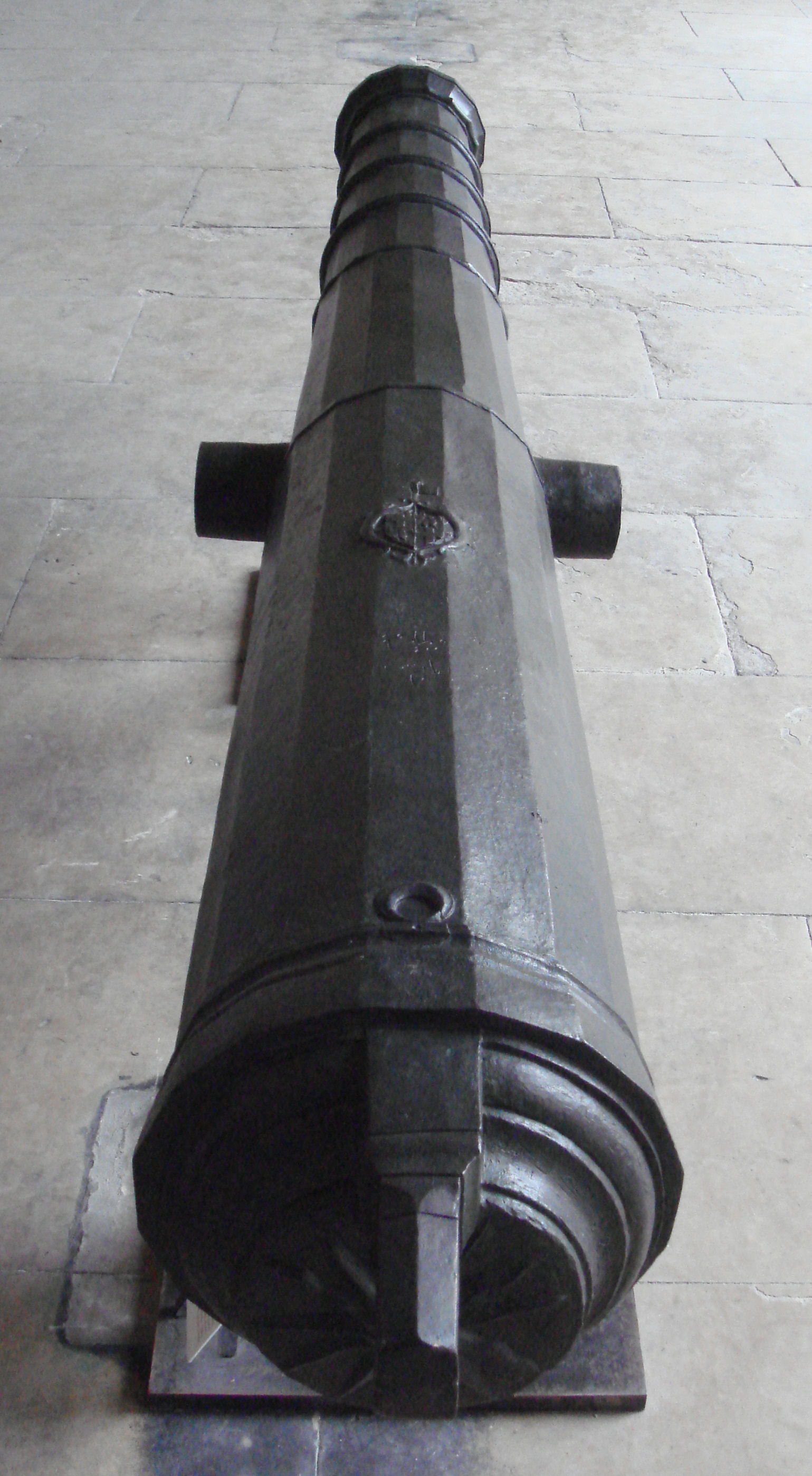 Culverine_of_Philippe_Villiers_de_l_Isle_Adam_1525_1530_Rhodes_140mm_339cm_2533kg_iron_ball_10kg_Abdul_Aziz_to_NIII_1862.